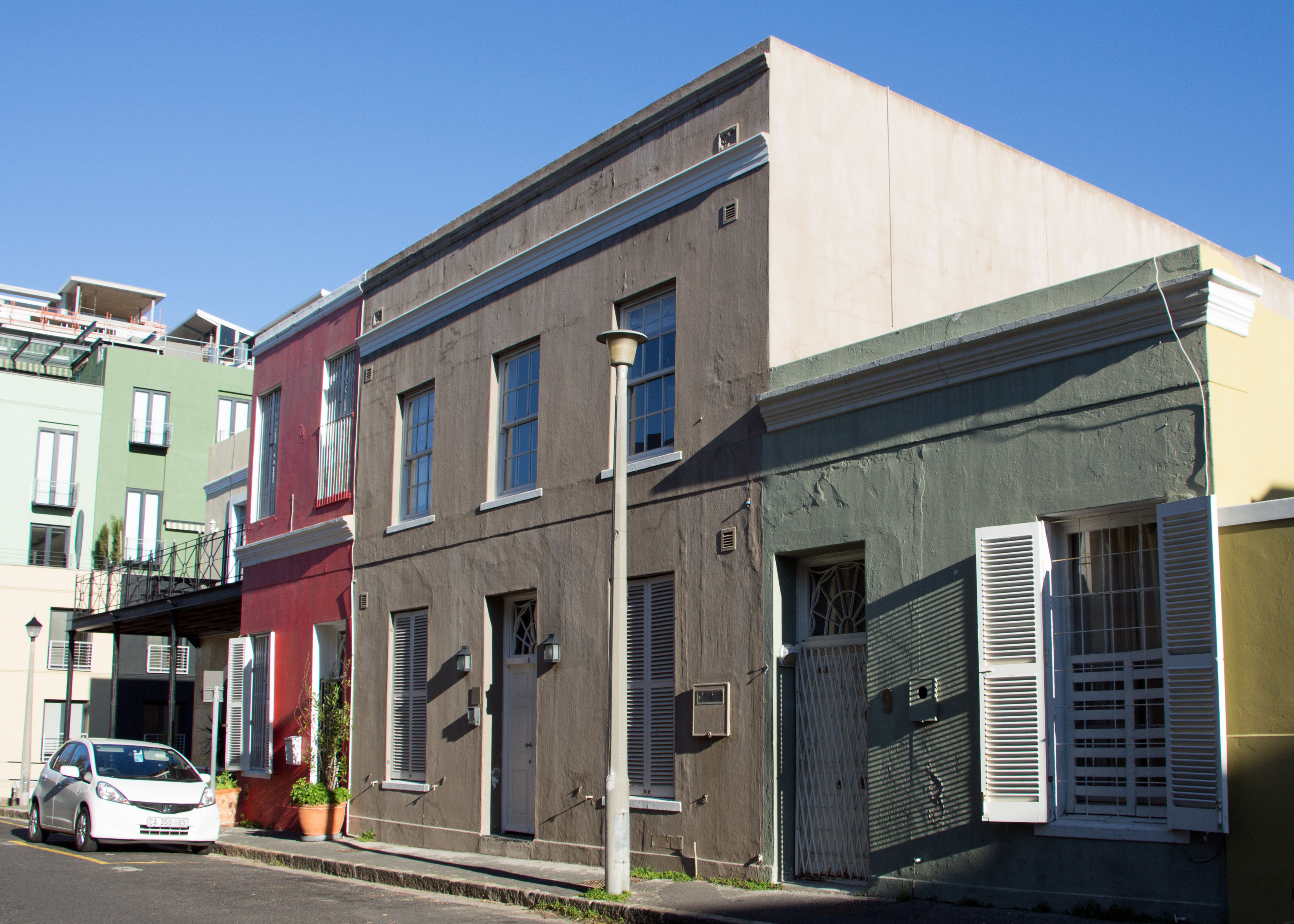 Loader Street, De Waterkant, Cape Town, South Africa